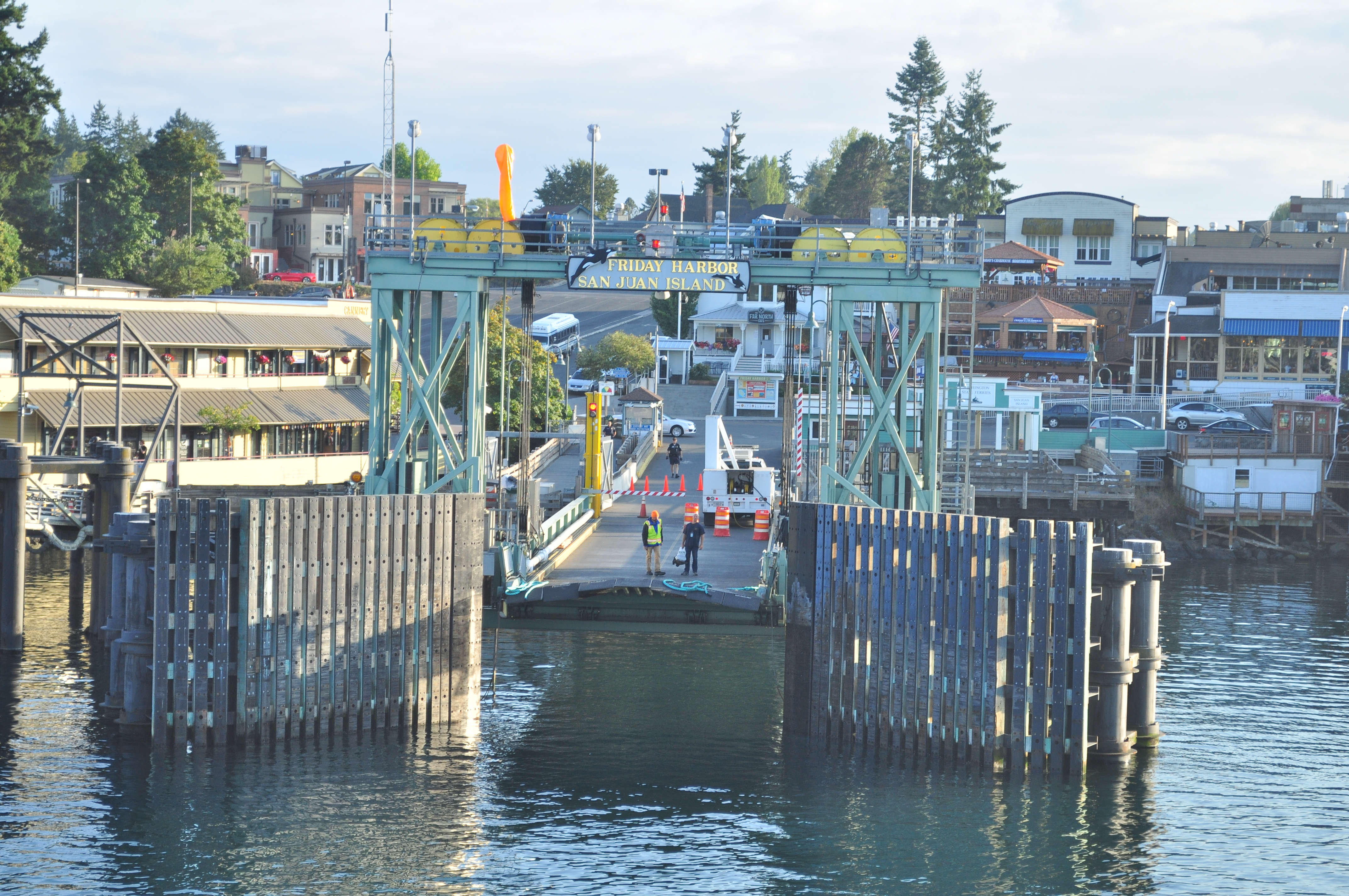 Ferry terminal, Friday Harbor, San Juan Island, Washington, U.S., seen from Washington State Ferry.